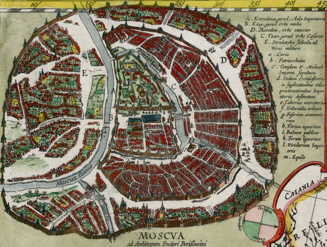 Willem Janszoon Blaeu: Tabula Russiae ex autographo, quod delineandum curavit Foedor filius Tzaris Borois desumta …. MDCXIIII A gorgeous example of Hessel Gerritsz's map of Russia, with the large inset of Moscow and plan of Archangelsckagoroda. Hessel Gerritsz's map of Russia, first issued 1613, was published by Blaeu after he acquired the plate following Gerritsz's death in 1632. The top left corner has an inset plan of Moscow with a 17-point key. On the right is a prospect of Archangel, Russia's only northern port until the founding of St Petersburg in 1700. Three figures in Russian dress stand above. The title is within a martial cartouche. The map was compiled from manuscript maps and work brought back by Isaac Massa. The inset plan of Moscow has been attributed to the Crown Prince Fydor Gudonov.